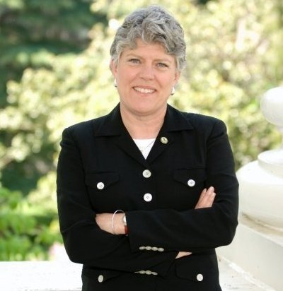 California Congresswoman Julia Brownley.